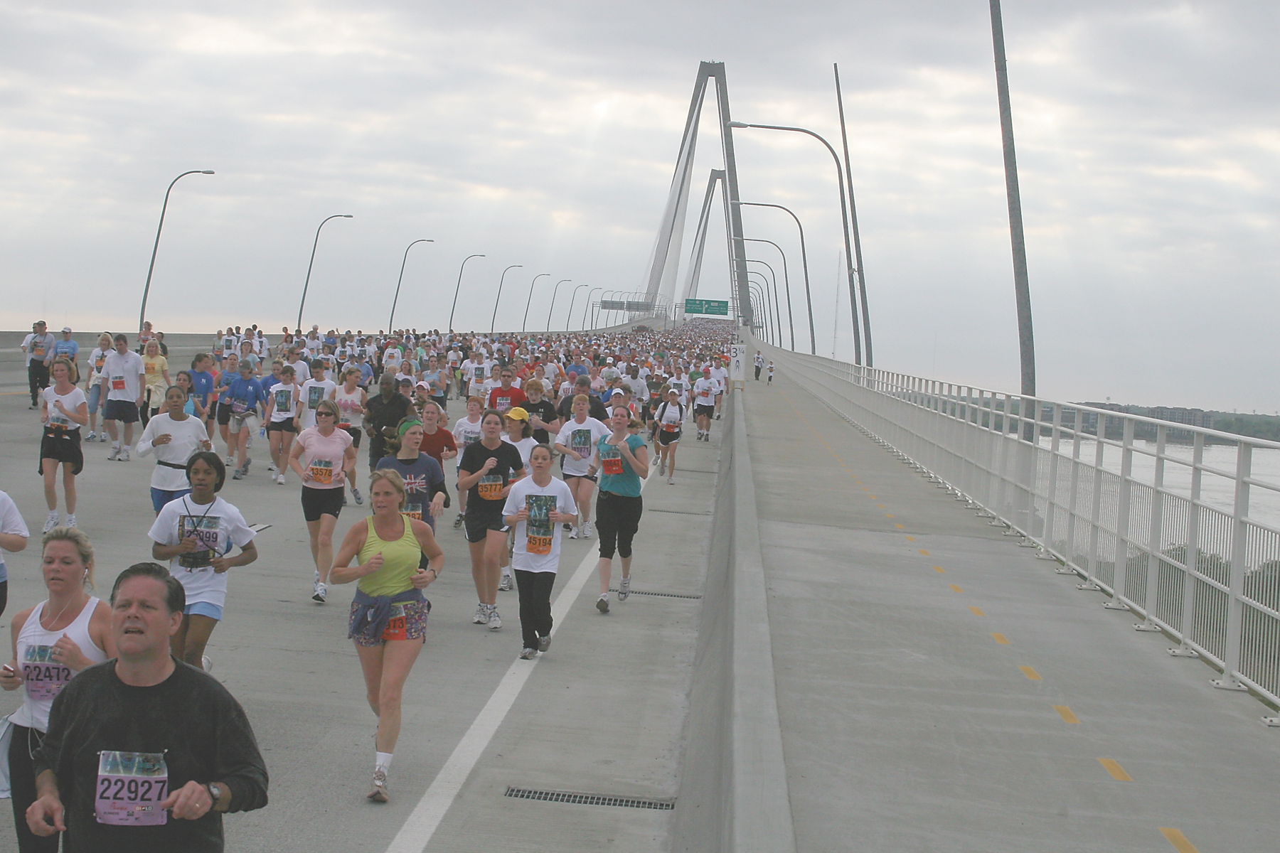 Nearly 40,000 people ran the 10-kilometer Cooper River Bridge Run in Charleston, March 31. The annual event was designed to promote continuous physical activity and a healthy lifestyle.